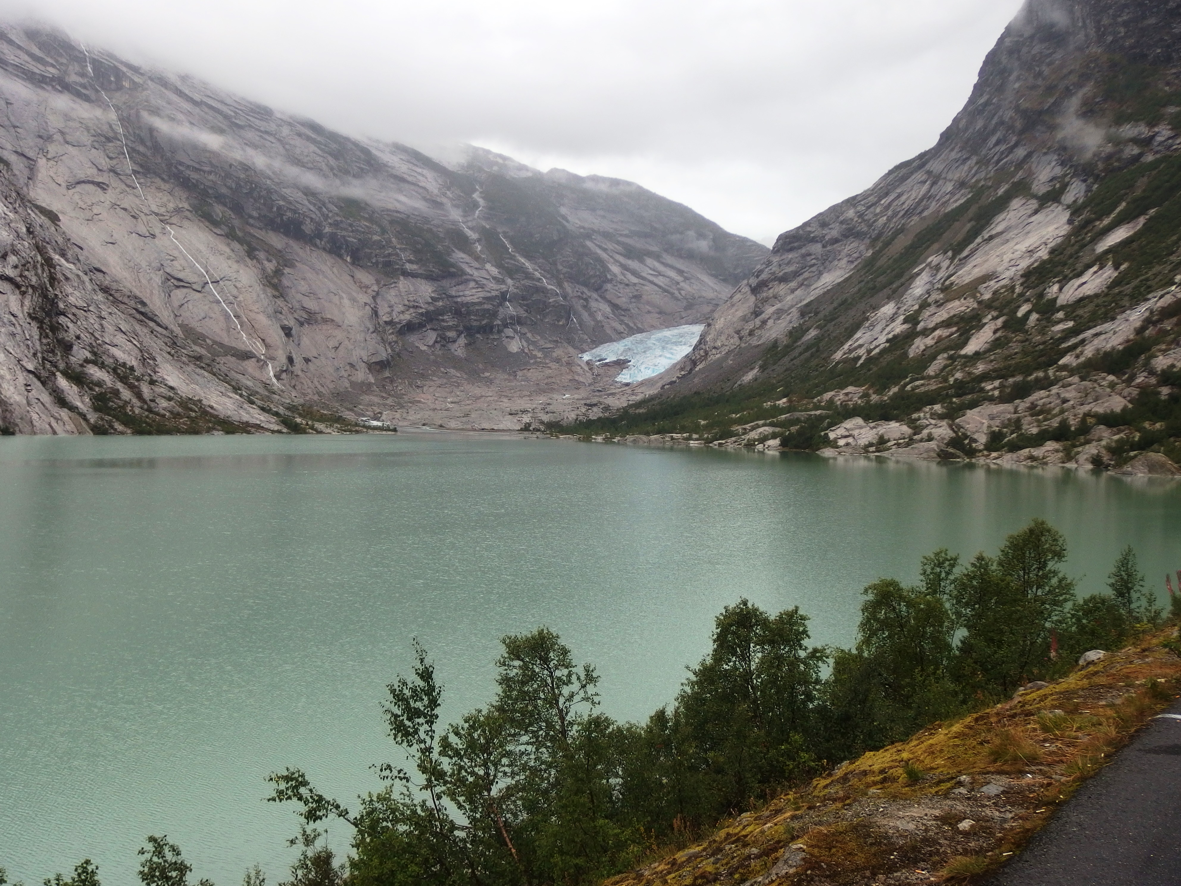 Nigardsbreen (Nigard Glacier), a glacier arm of the large Jostedalsbreen glacier.Jostedalen valley, Luster municipality, Sogn og Fjordane county, Norway.